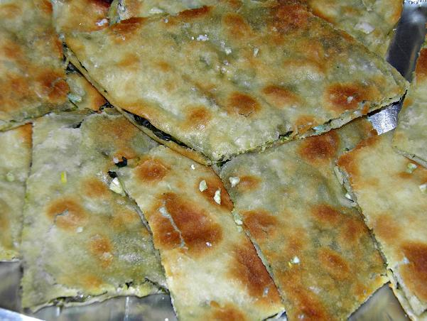 Stacked, rhombically cut pieces of soparnik with shreds of garlic on top